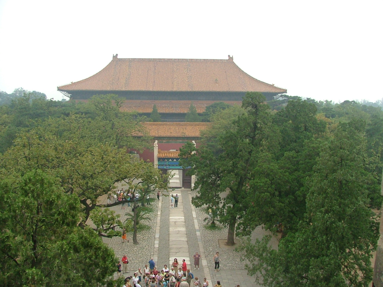 Site of Ming Tomb (Zhu Di tomb in fact) near Changling